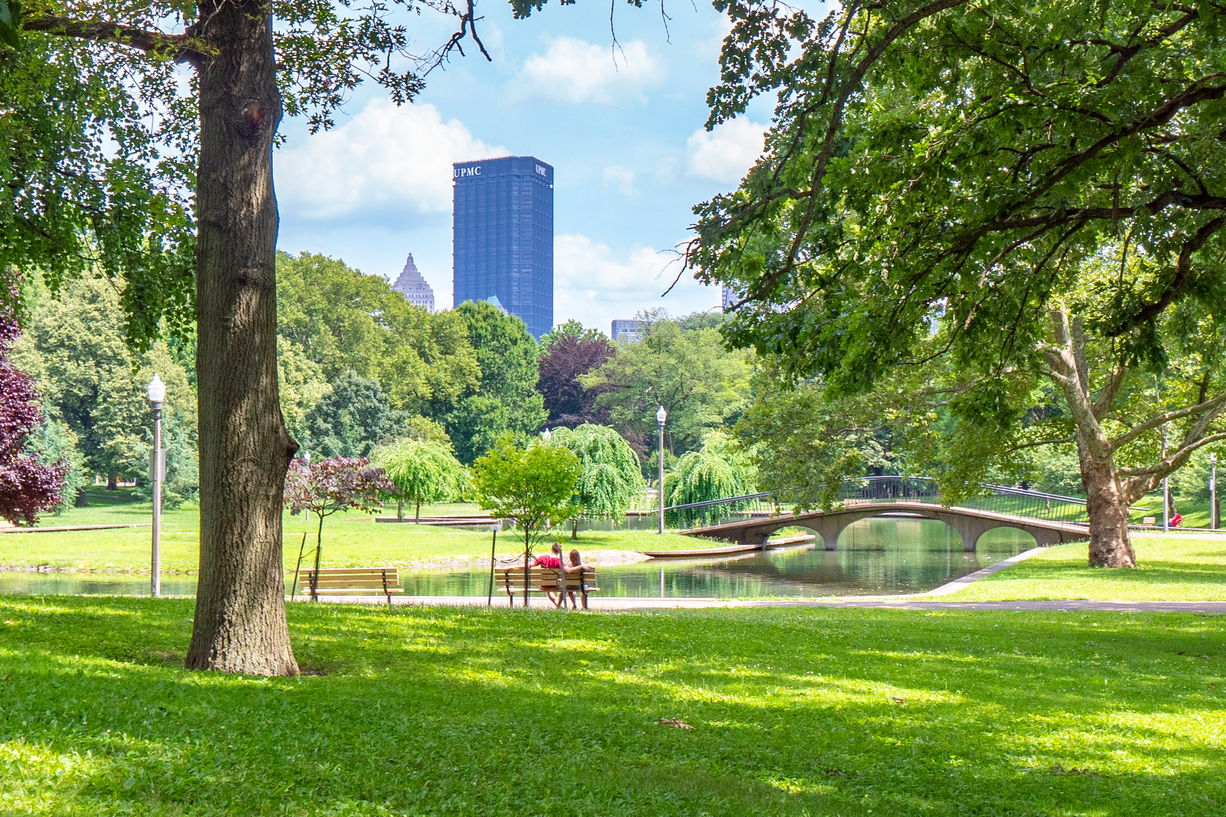 The Allegheny Commons Park in Pittsburgh with skyscrapers in the background.